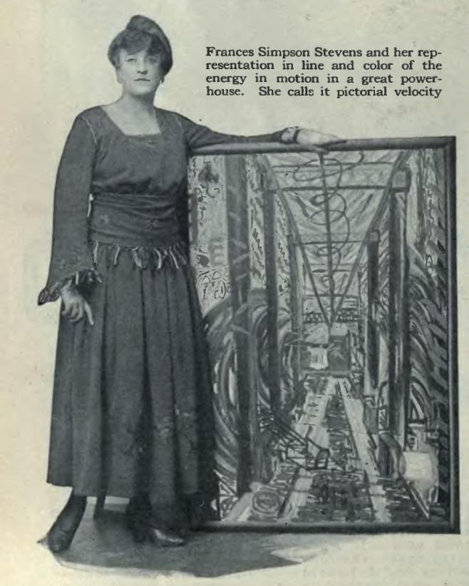 Photograph of Frances Simpson Stevens with her Futurist artwork